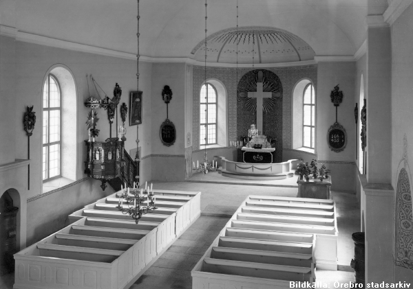 Interior of Lillkyrka church, Sweden